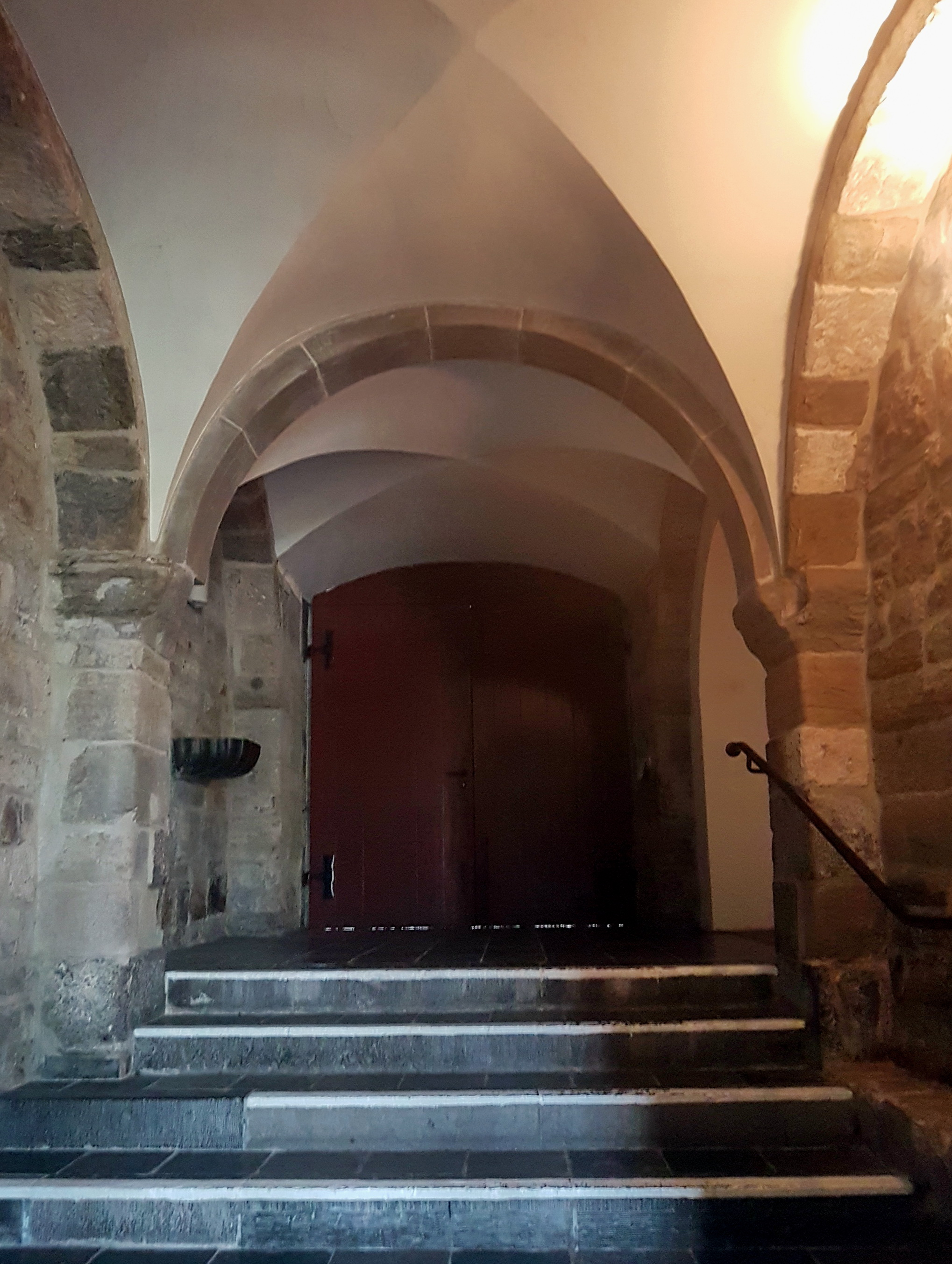 View from the west corridor of the cloisters of the Basilica of Saint Servatius in Maastricht, Netherlands. The corridor leads to the sacristy and the west portal.